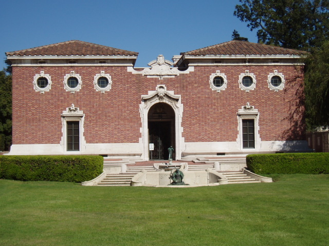 Grrr! I have given this pic its copyright status so many damn times! I took the picture and release it to the public domain. I'd better not be deleted!Tebp| 01:36, 21 August 2007 (UTC) Grrr! I have given this pic its copyright status so many damn times! I took the picture and release it to the public domain. I'd better not be deleted!Tebp 01:36, 21 August 2007 (UTC)